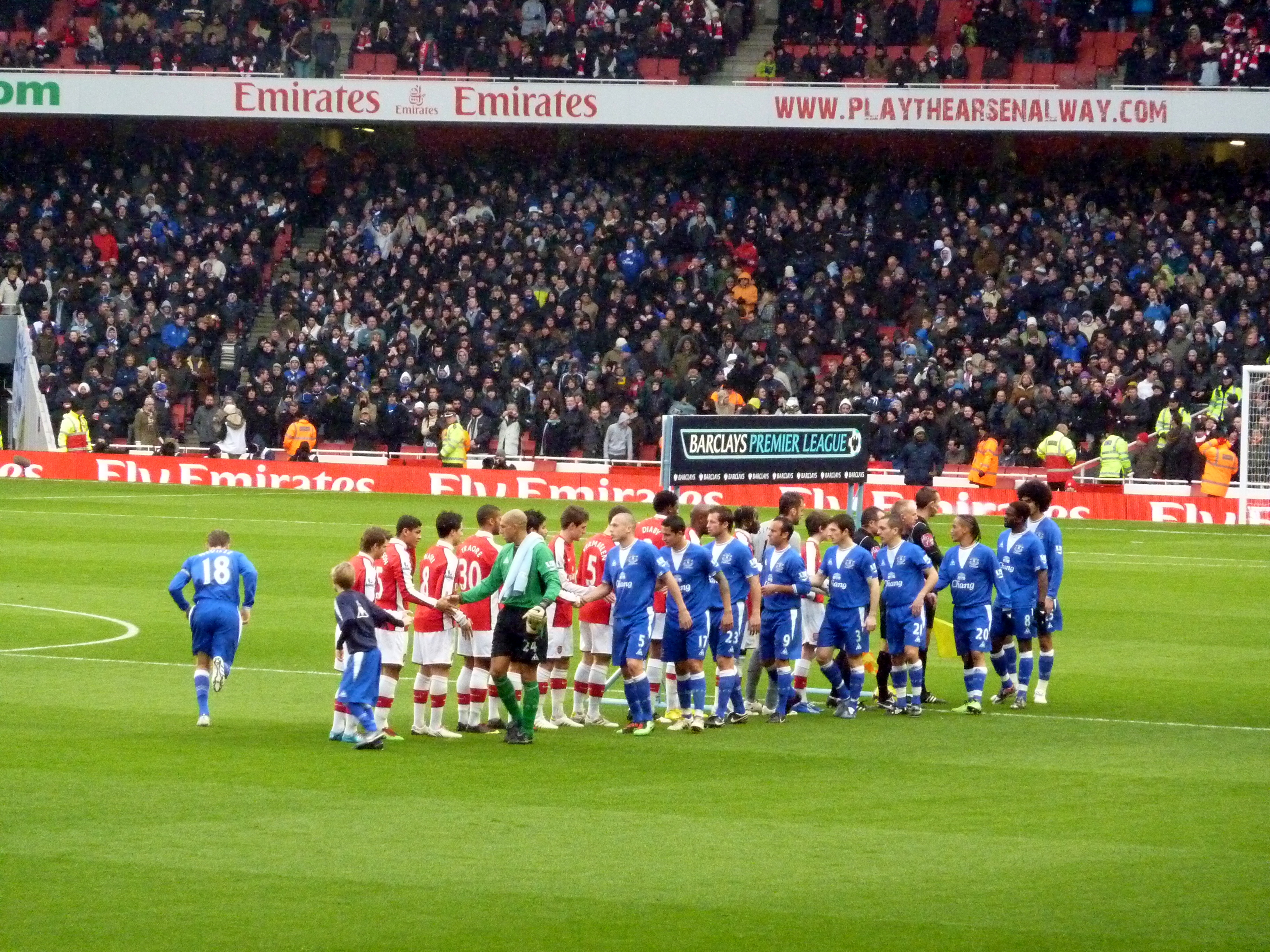 Players of Arsenal F.C. and Everton F.C. shaking hands before a Barclays Premier League match at Emirates Stadium, January 2010.